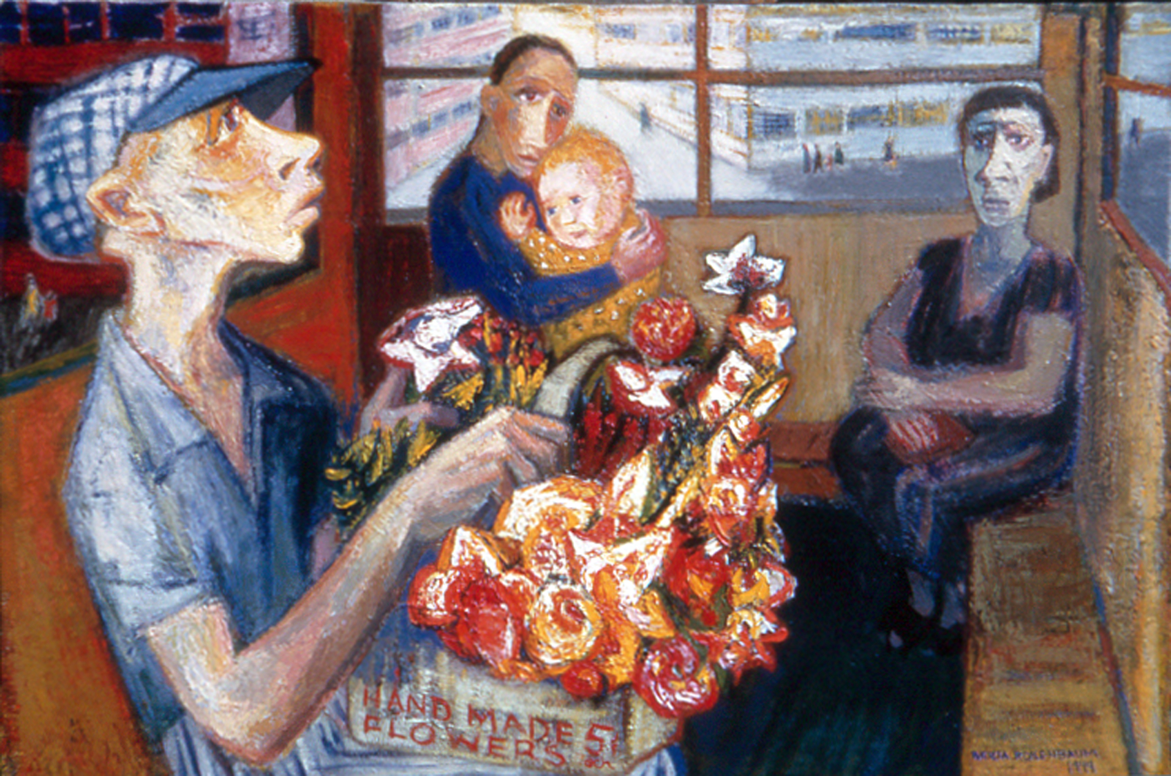 Street Car Scene, by Berta Rosenbaum Golahny, 1940s